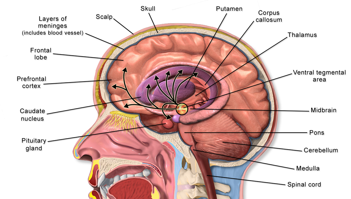 Animation in the reference.[1] This image was donated by Blausen Medical.